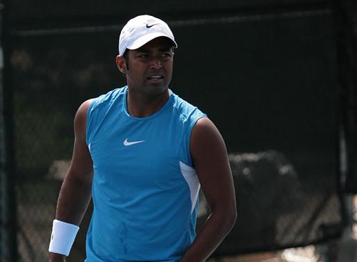 Leander Paes practising at the 2008 Western & Southern Financial Group Masters